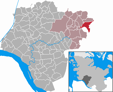 This map shows the area of the municipality Brokstedt in the Kreis (district) Steinburg, Schleswig-Holstein, Germany.